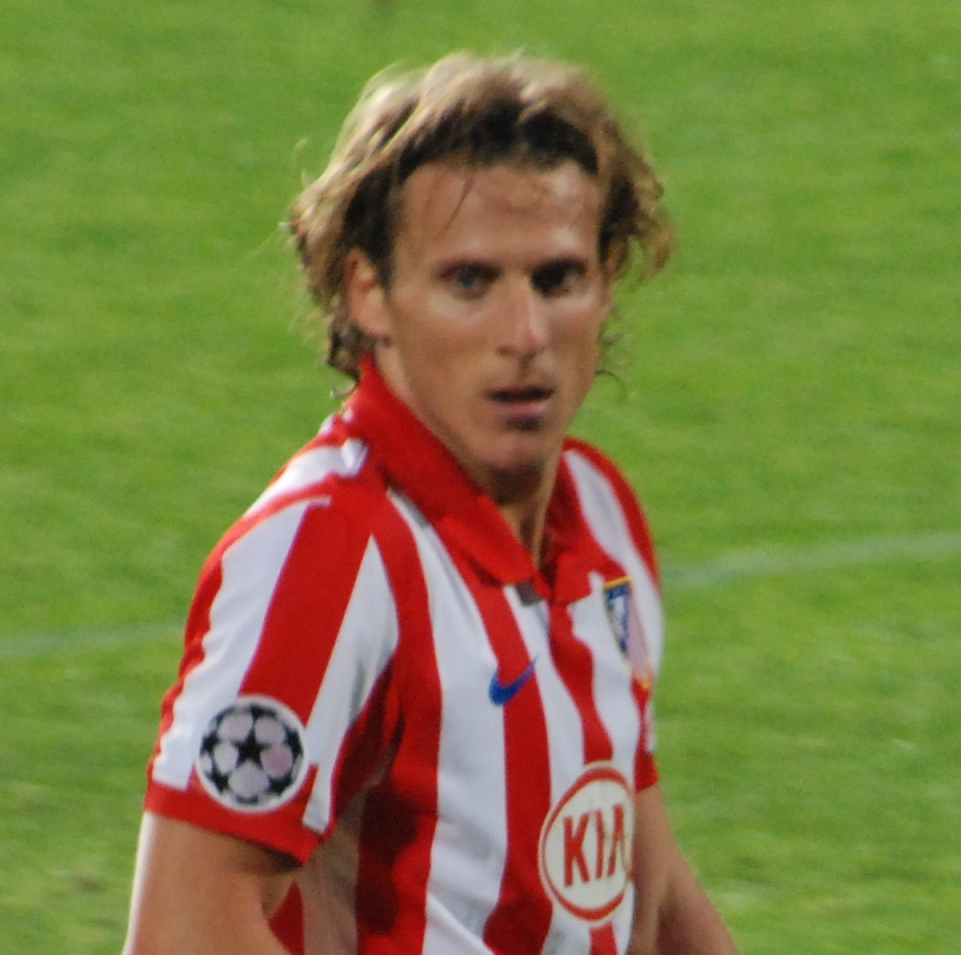 For the group stages of the UEFA Champions League 2009/2010.